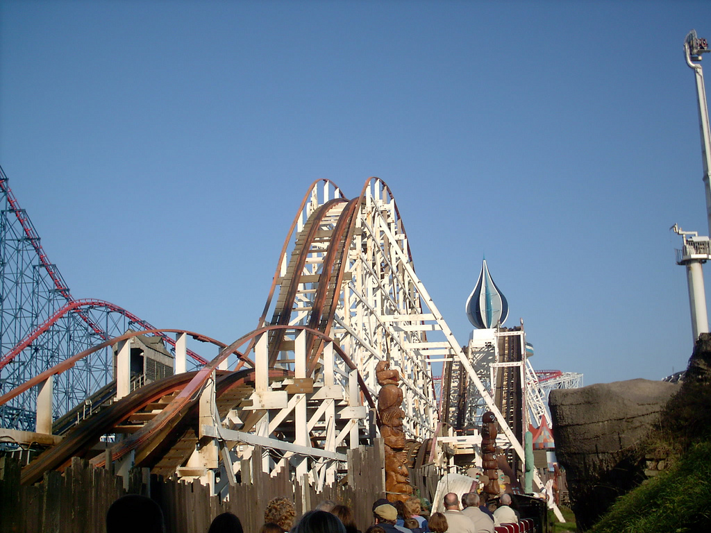 Picture in public domain - All Rights Released